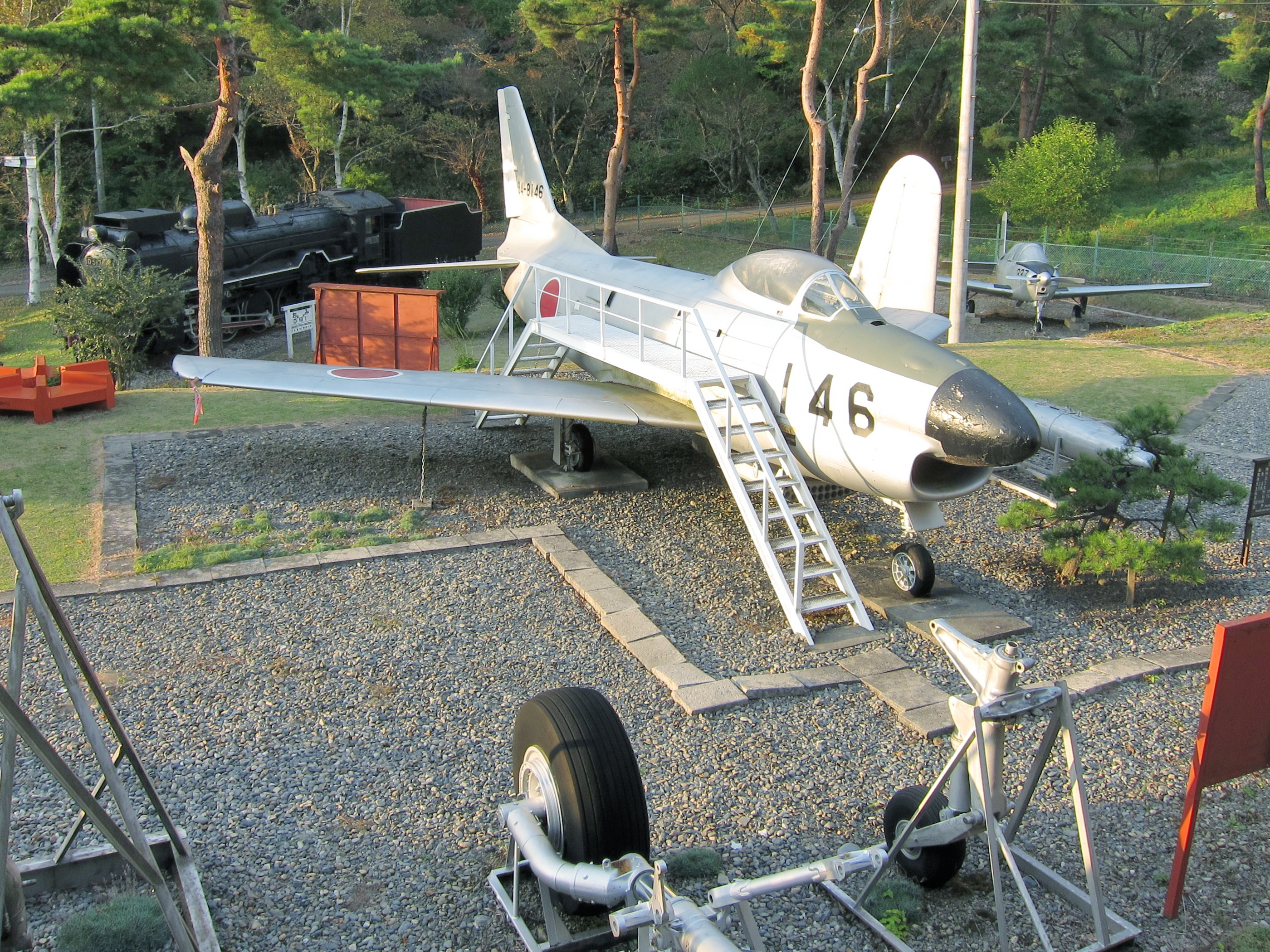 Photograph of Hijiri Museum, jet fighter F-86D 94-8146 and propeller trainer T-34 51-0337 and steam locomotive D51 769 exterior. address 5889-1 Ohijiri, Omi Village, Higashichikuma District, Nagano Prefecture, Japan photo date October 16, 2010